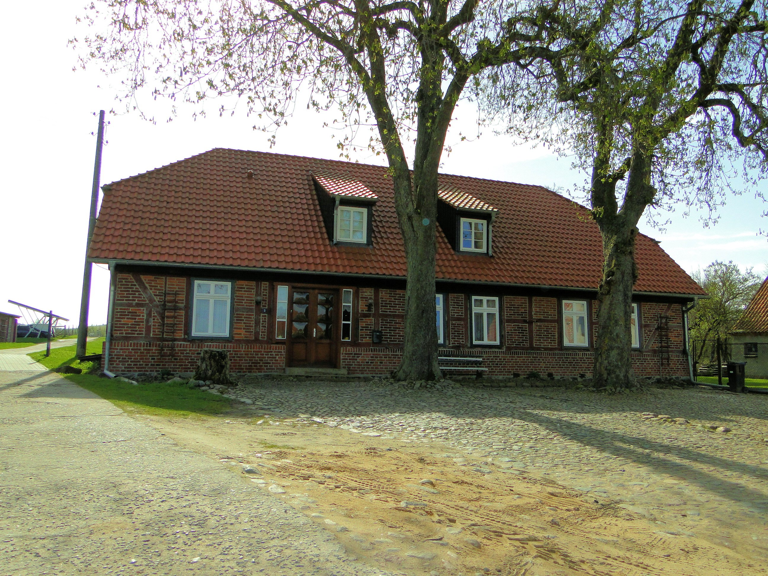 Lange Straße / Cultural heritage monument in Augzin, district Ludwigslust-Parchim, Mecklenburg-Vorpommern, Germany